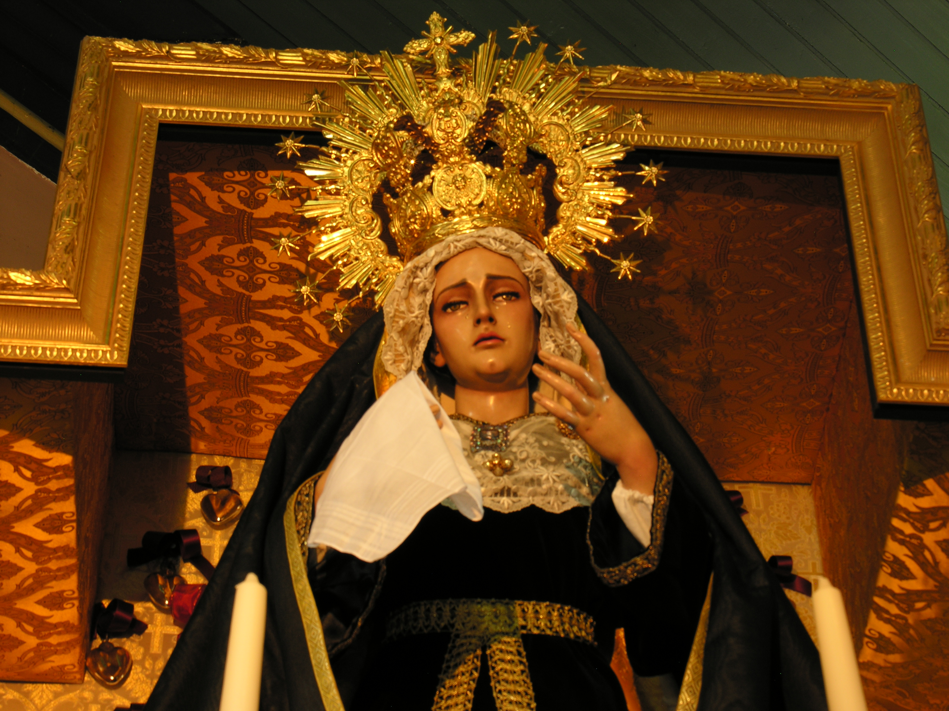 Our Lady of Warfhuizen dressed for mourning